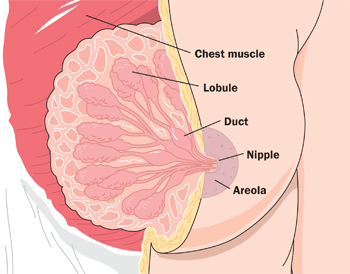 Inside the breast